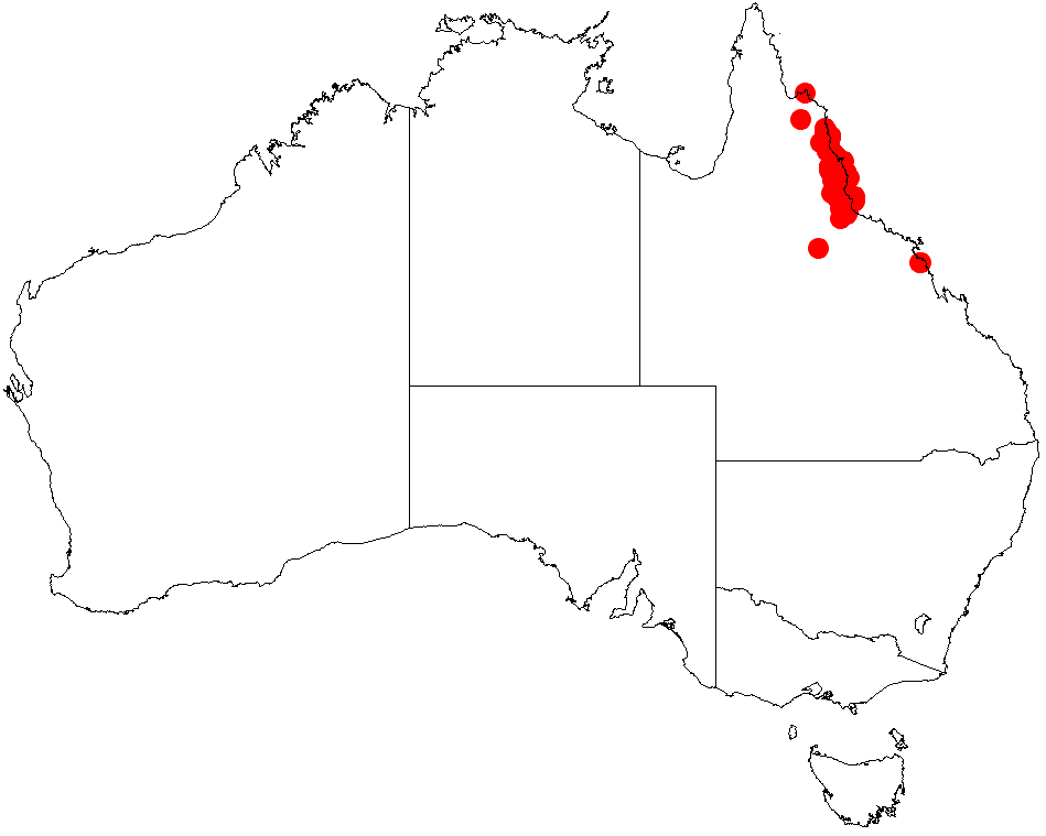 Acacia celsa occurrence data from Australasian Virtual Herbarium downloaded from on December 8 2018